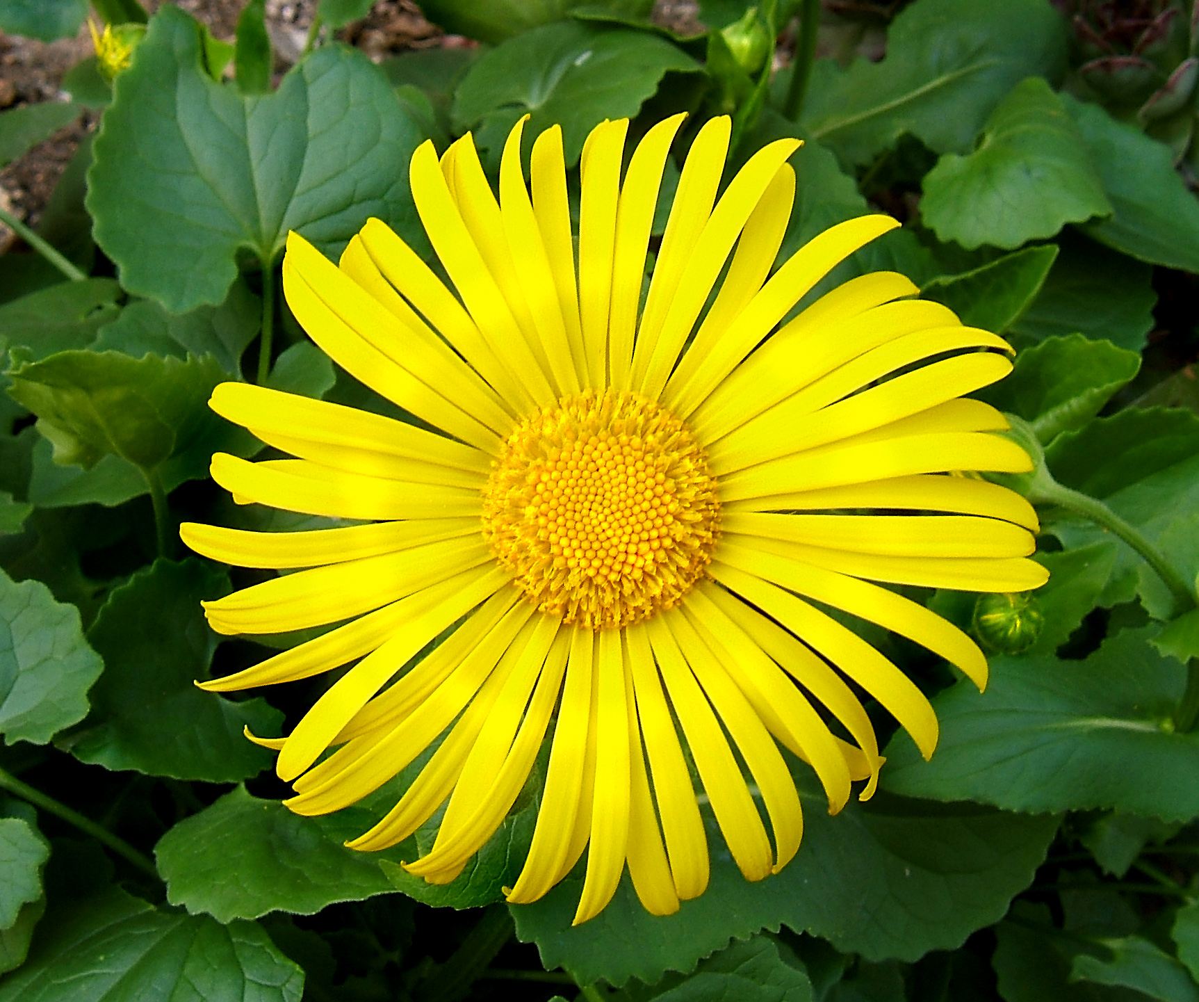 Leopard's Bane